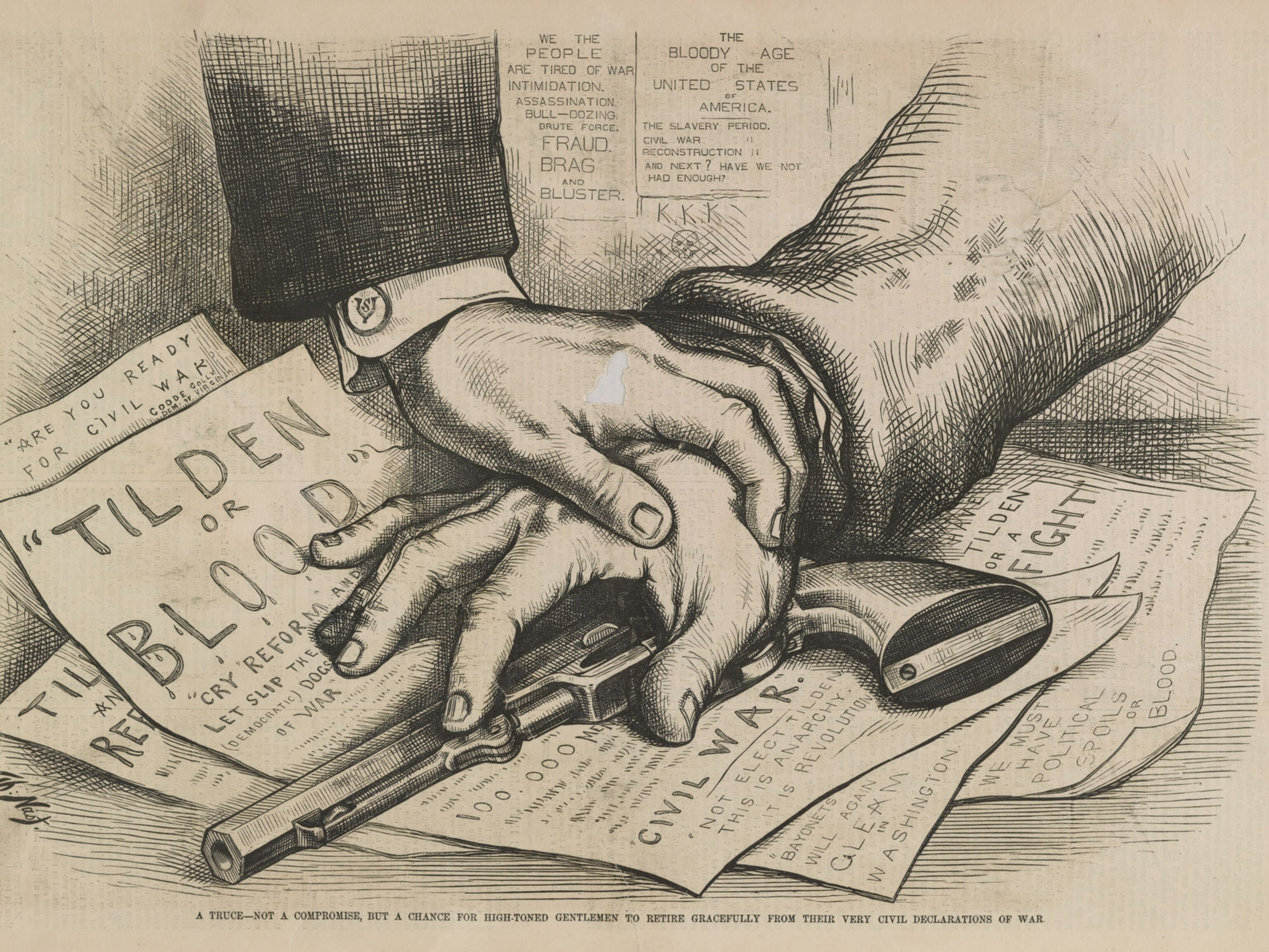 A truce - not a compromise, but a chance for high-toned gentlemen to retire gracefully from their very civil declarations of war Thomas Nast. Illus. in: Harper's Weekly, Feb. 17, 1877, p. 132.